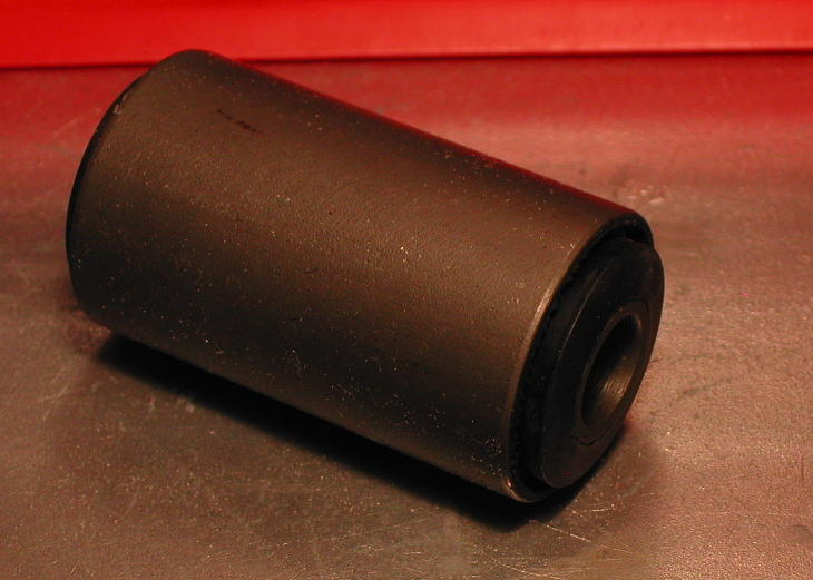 Front endedblock of Fiat 500R